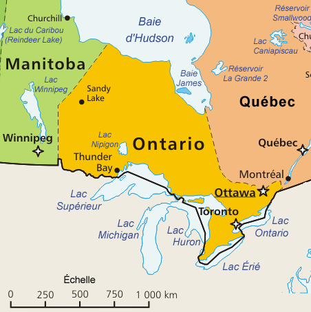 Ontario